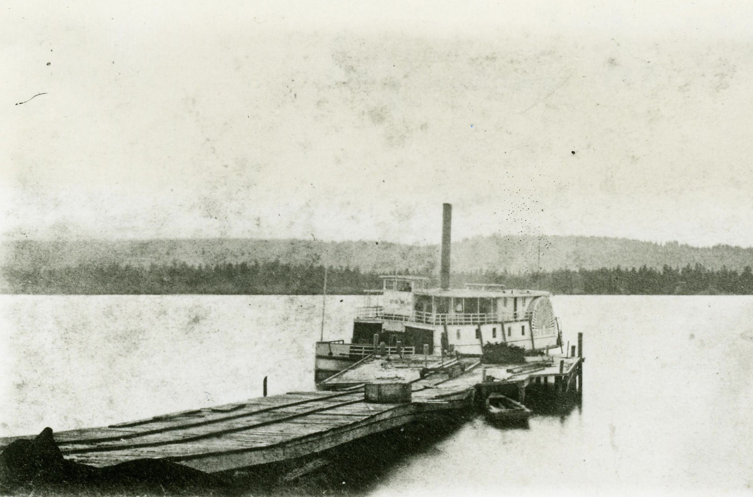 Photograph of the sidewheeler John H. Couch at a floating wharf, probably somewhere on the Columbia River. Photo taken between 1863, when the boat was built, and 1873, when the boat was scrapped.